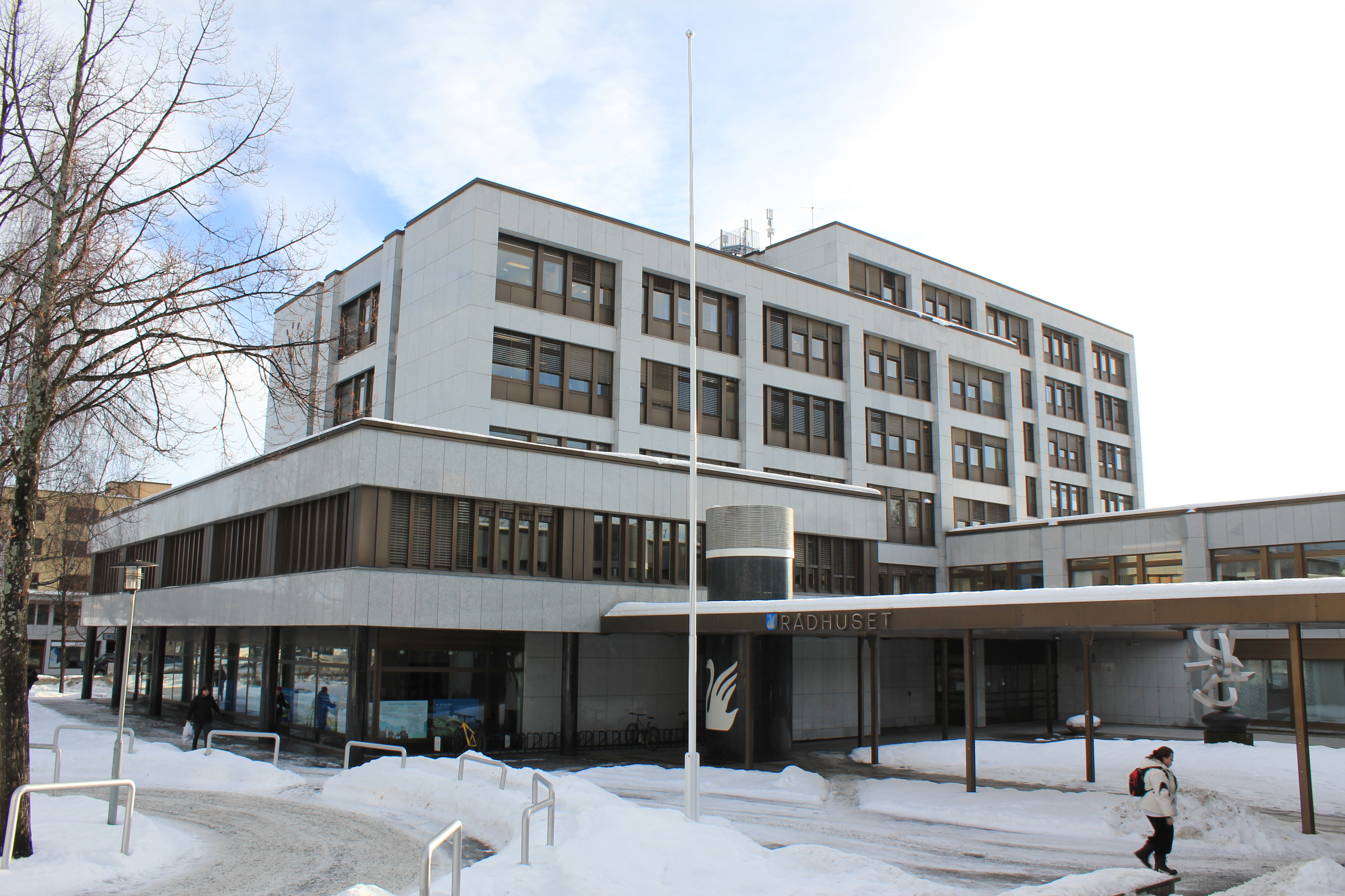 Gjøvik City Hall.